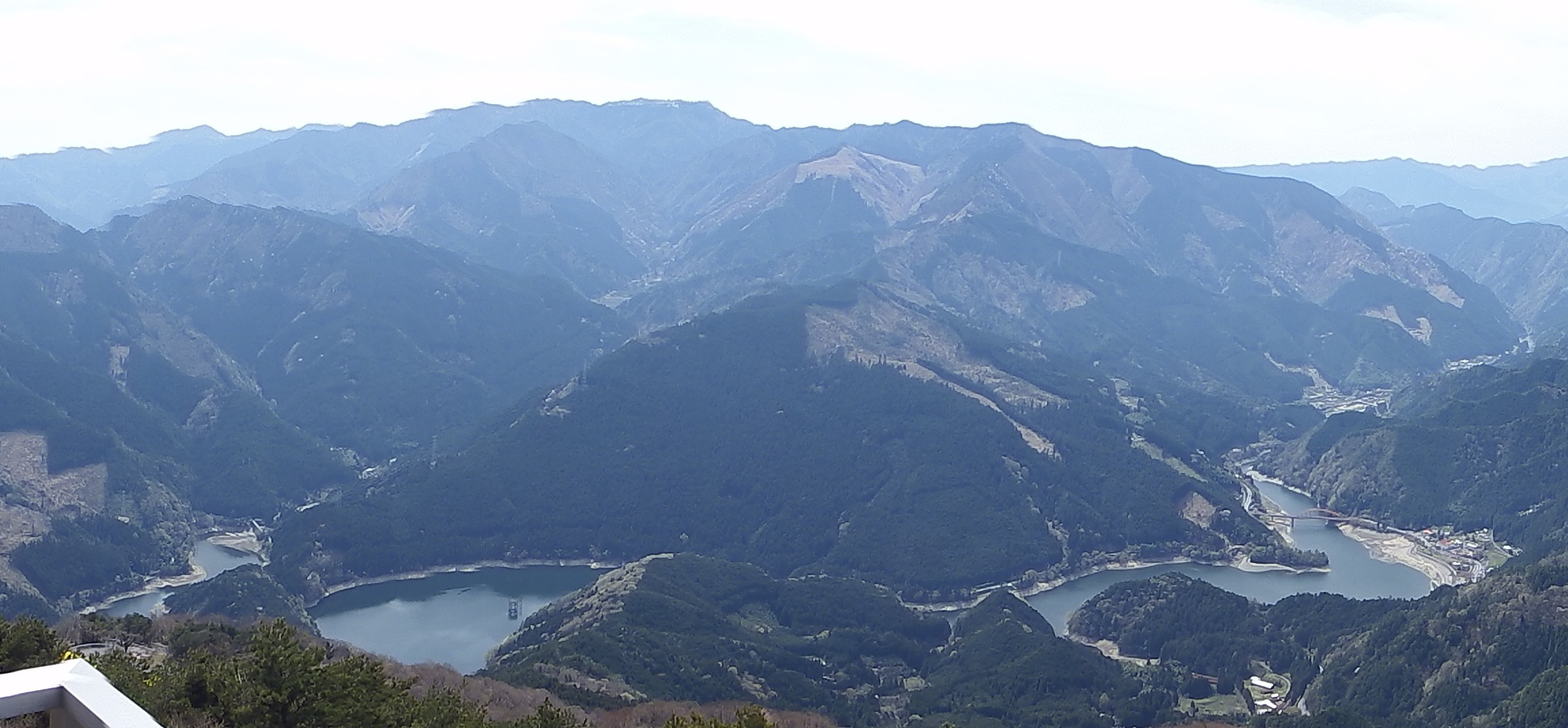 Lake Kinsha as seen from Mount Suiha